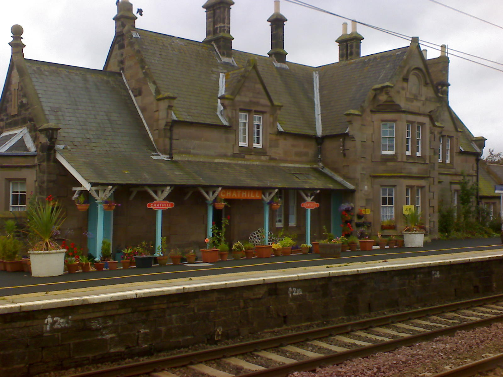 Chathill Railway Station, Station House, October 2007